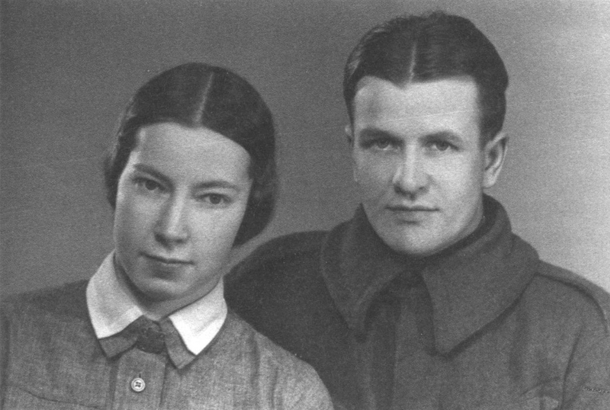 Photograph of the Finnish music educator Liisa Tenkku née Simojoki (1918–2017) and her fiancé, philosopher Jussi Tenkku (1917–2005).